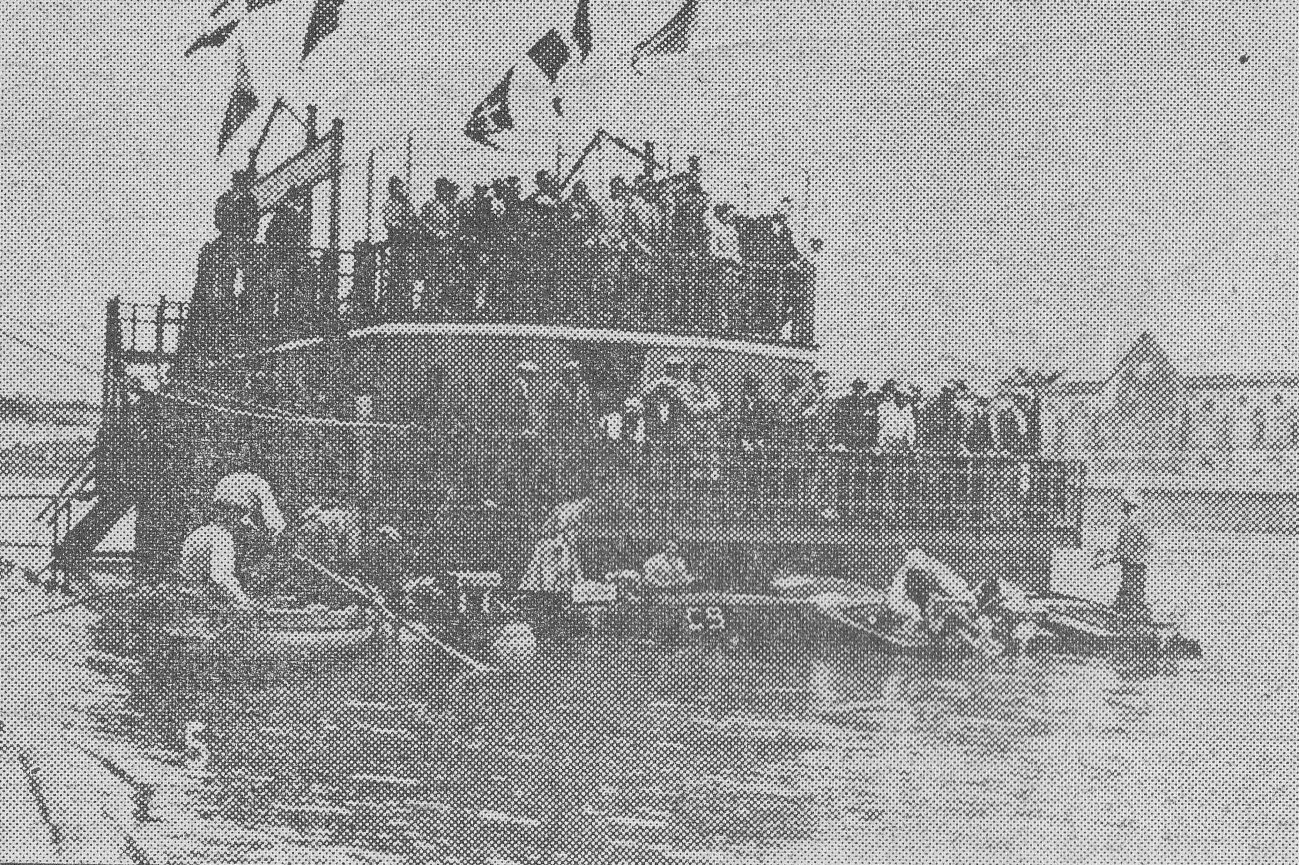 Swimming club Rari Nantes' chalet in the Arno river, Pisa, Tuscany, Italy.